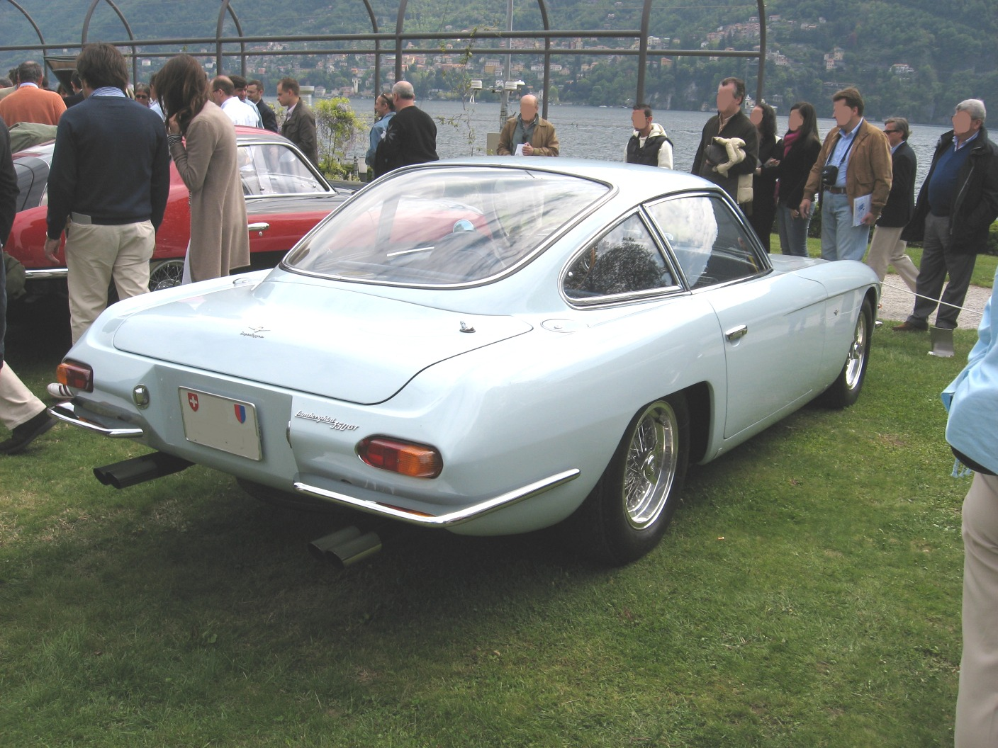 Rear view of a Lamborghini 350 GT